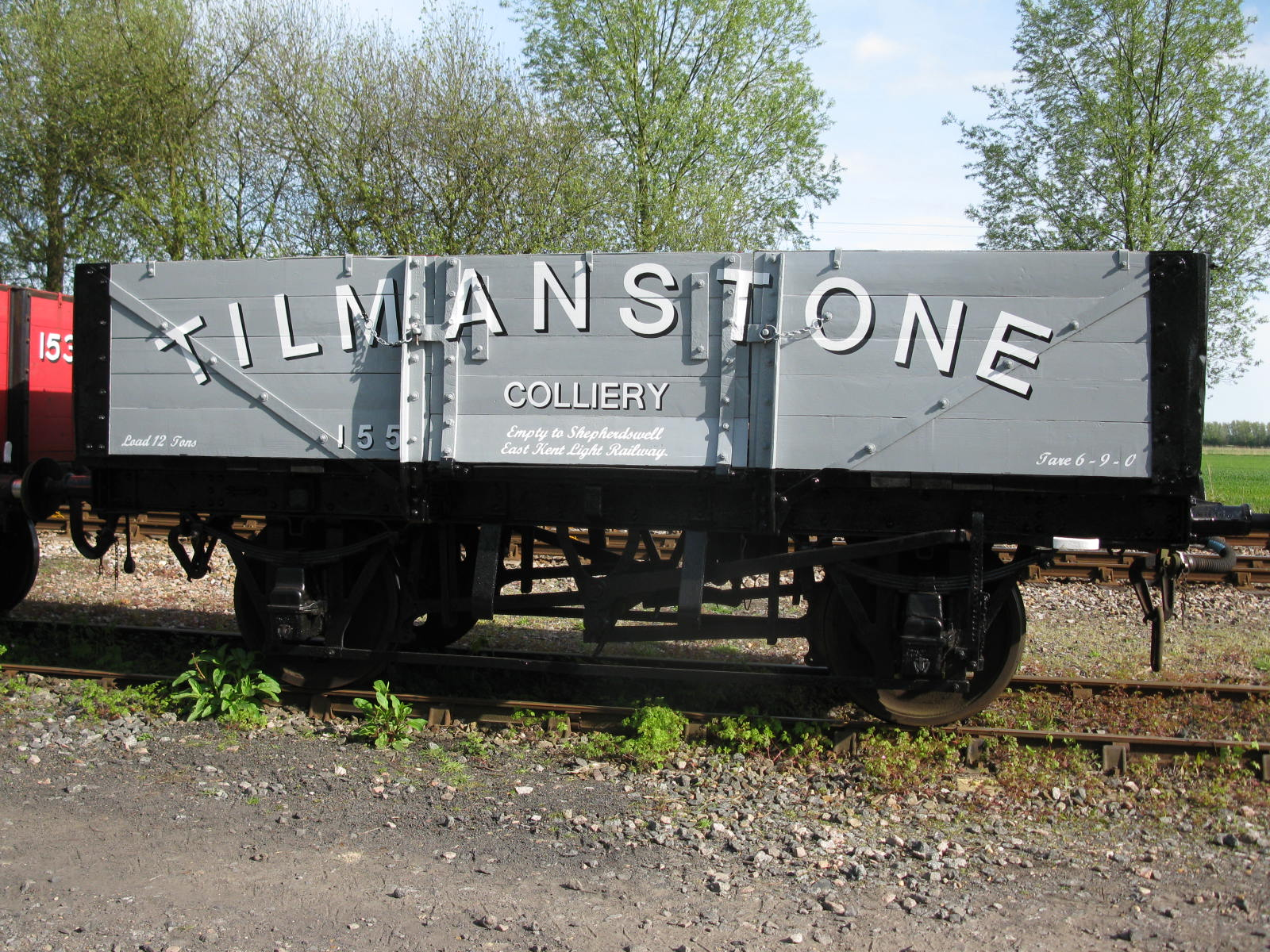 A Private Owner wagon in the livery of Tilmanstone Colliery, Kent. In service on the Kent & East Sussex Railway.